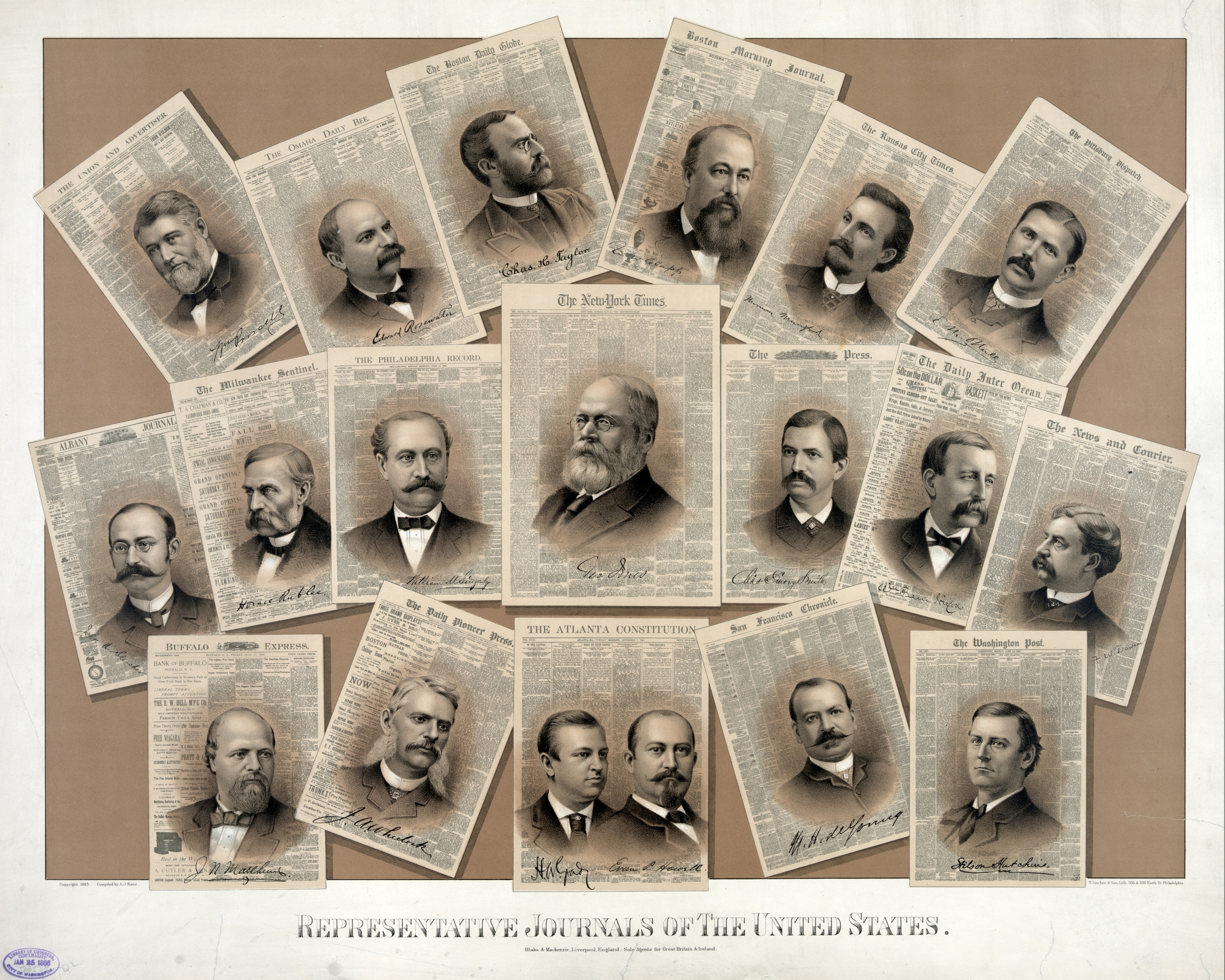 "Representative journals of the United States. Copyright 1885. Compiled by A. J. Kane. T. Sinclair & Son, Lith., 506 & 508 North St., Philadelphia."First row: The Union and Advertiser (William Purcell) - The Omaha Daily Bee (Edward Rosewater) - The Boston Daily Globe (Charles H. Taylor) - Boston Morning Journal (William Warland Clapp) - The Kansas City Times (Morrison Mumford) - The Pittsburgh Dispatch (Eugene M. O'Neill).Second row: Albany Evening Journal (John A. Sleicher) - The Milwaukee Sentinel (Horace Rublee) - The Philadelphia Record (William M. Singerly) - The New York Times (George Jones) - The Philadelphia Press (Charles Emory Smith) - The Daily Inter Ocean (William Penn Nixon) - The News and Courier (Francis Warrington Dawson).Third row: Buffalo Express (James Newson Matthews) - The Daily Pioneer Press (Joseph A. Wheelock) - The Atlanta Constitution (Henry Woodfin Grady & Evan Park Howell) - San Francisco Chronicle (Michael H. de Young) - The Washington Post (Stilson Hutchins).